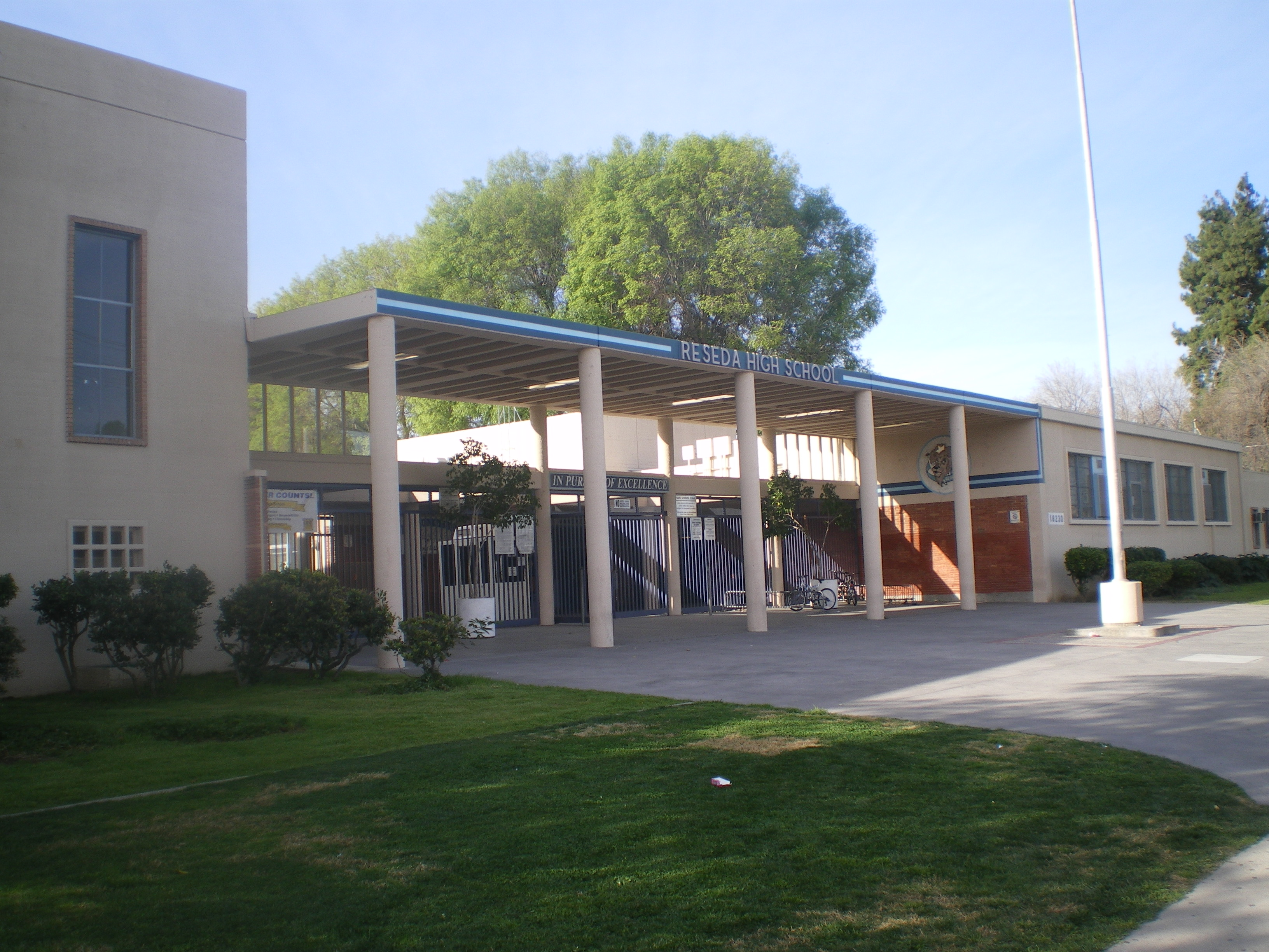 Reseda High School — in Reseda, a community of the western San Fernando Valley, in Los Angeles.